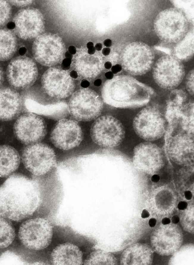 Electron micrograph of rotavirus particles reacting with a monoclonal antibody specific for the viral capsid protein Vp6.